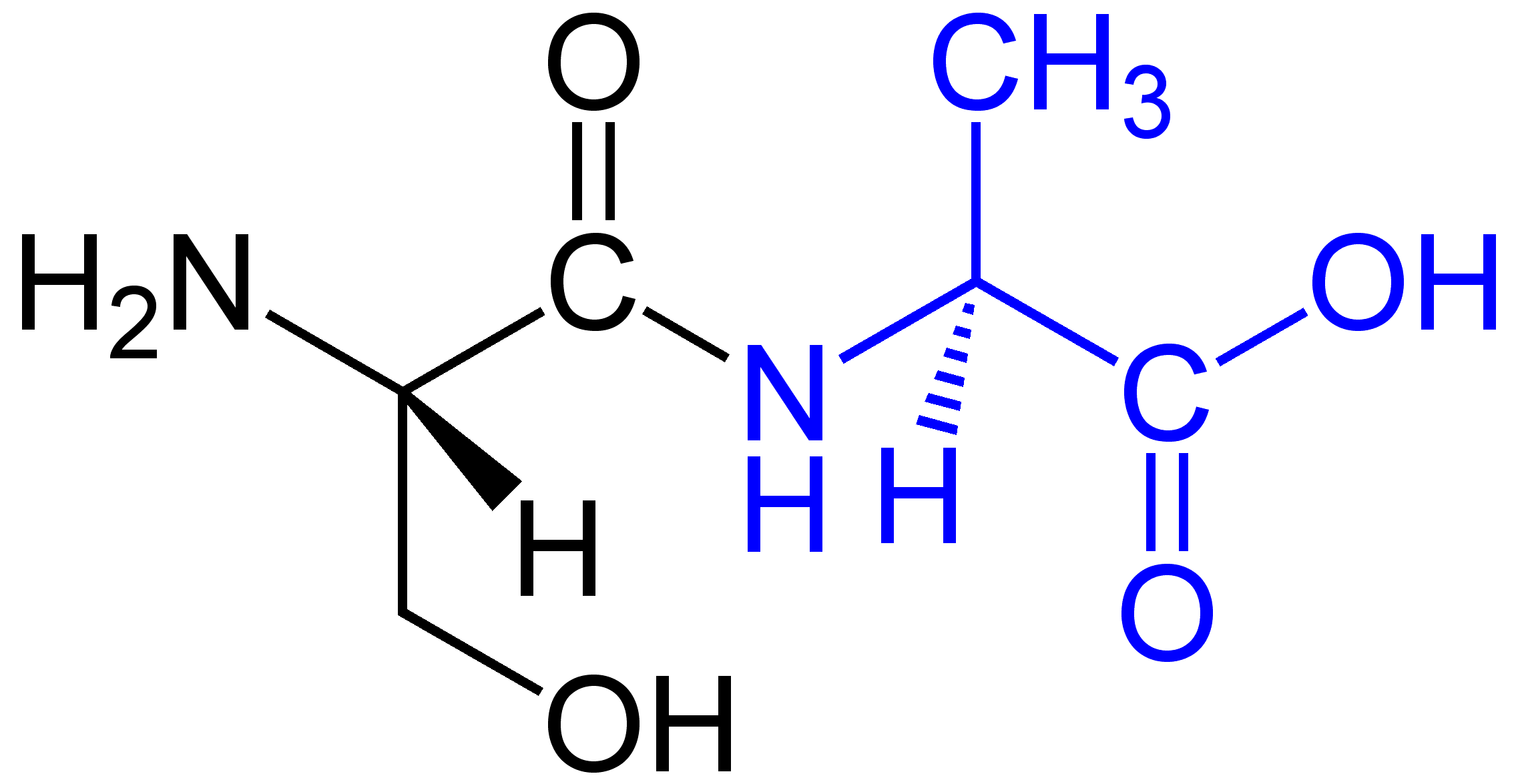 Dipeptide_structural_formulae